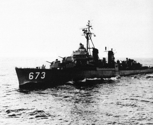 The U.S. Navy destroyer USS Hickox (DD-673) escorting the aircraft carrier USS Saratoga (CVA-60), not visible, during her shakedown cruise to the Atlantic Ocean from 18 August to 15 October 1956.